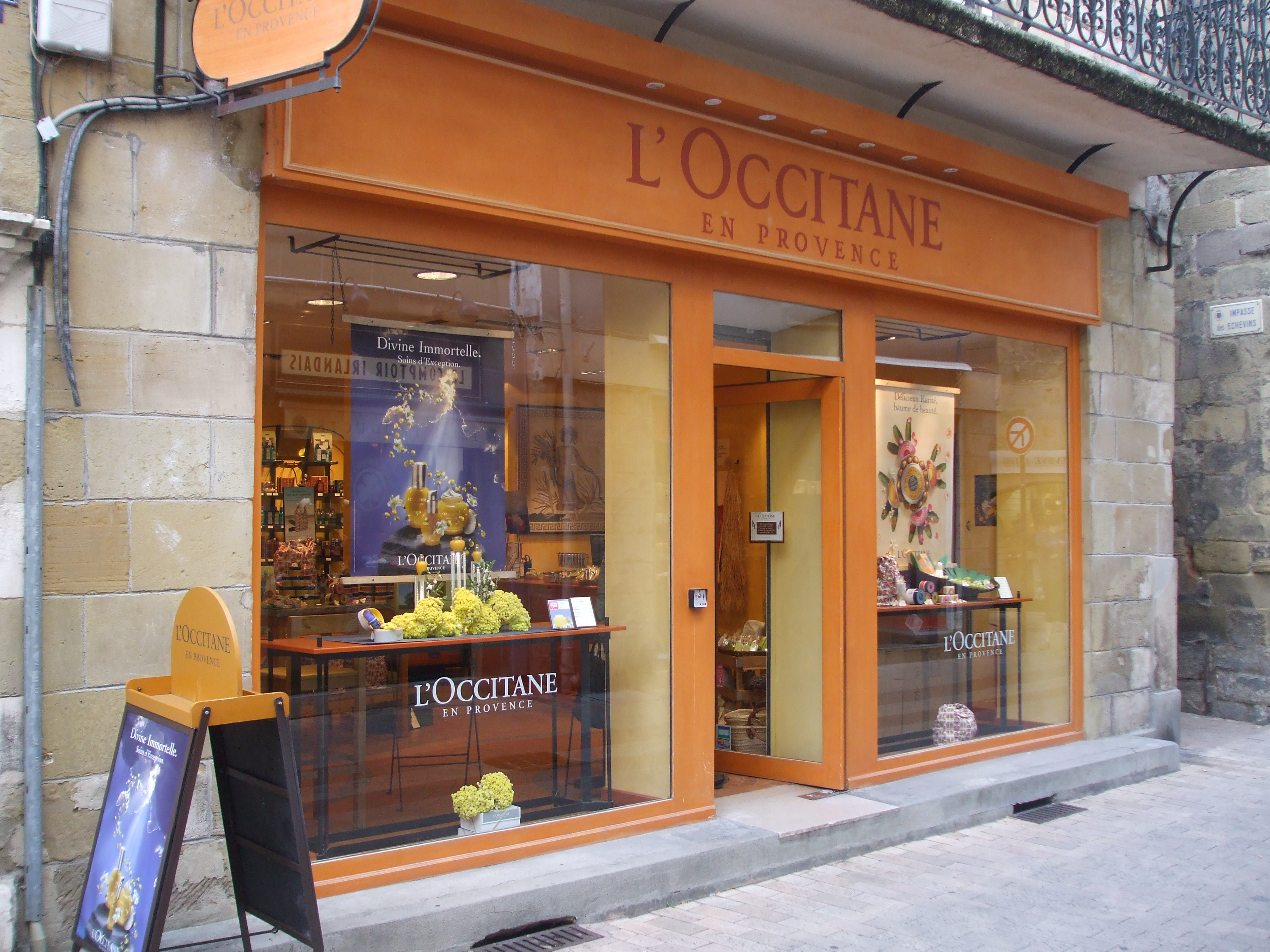 L'Occitane en Provence store, Brive la Gaillarde, France